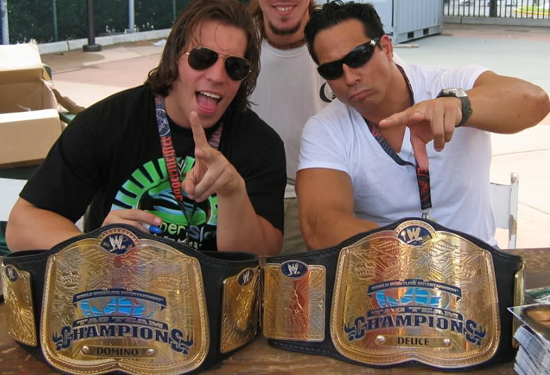 A cropped and edited version of Image:Deucendominolive.jpg, uploaded by